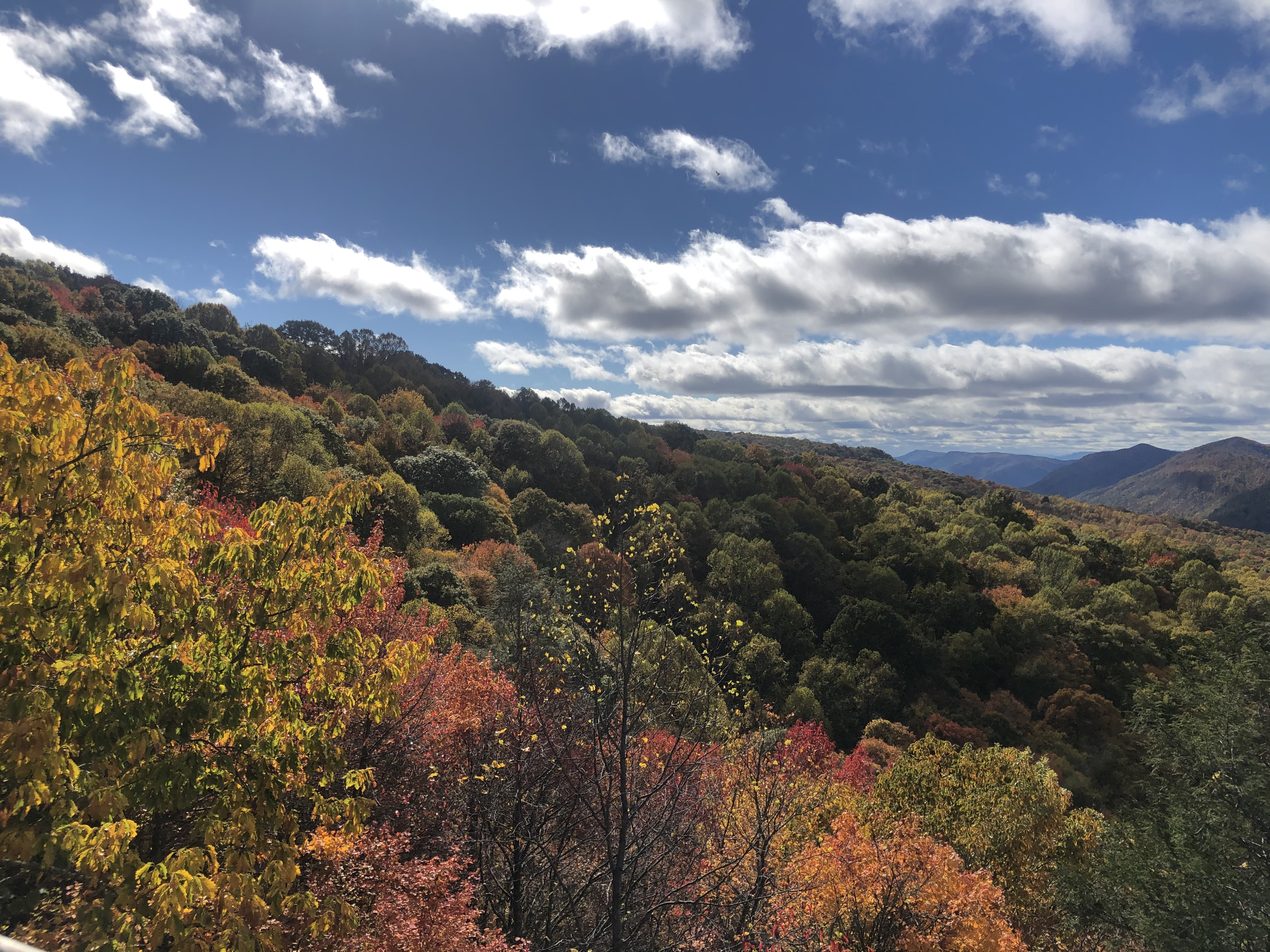 Overlook views of Norton City, VA during peak-Fall season.